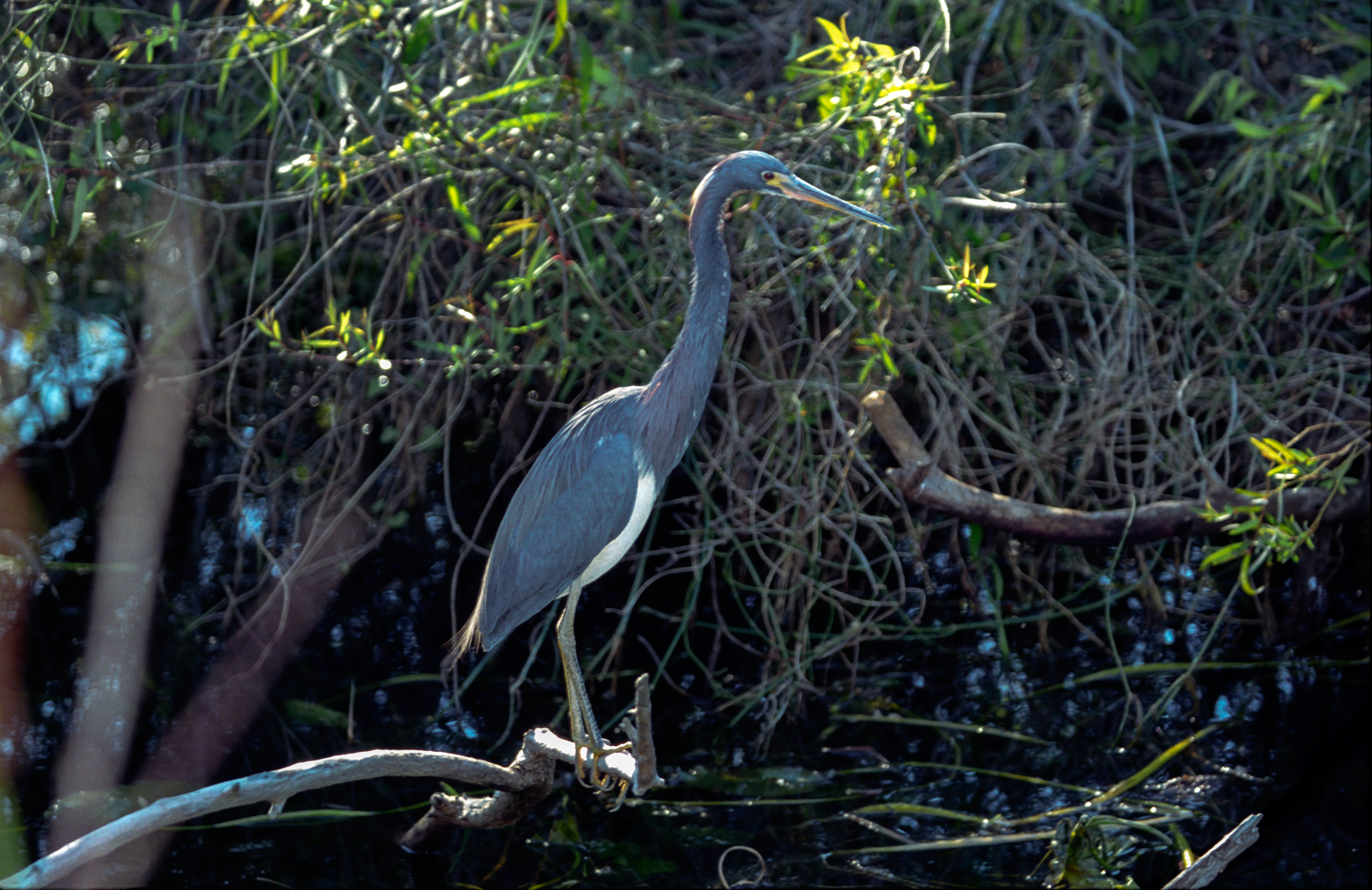 Tricolored Heron(Egretta tricolor), Everglades NP